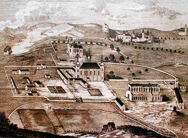 Sedlec Monastery